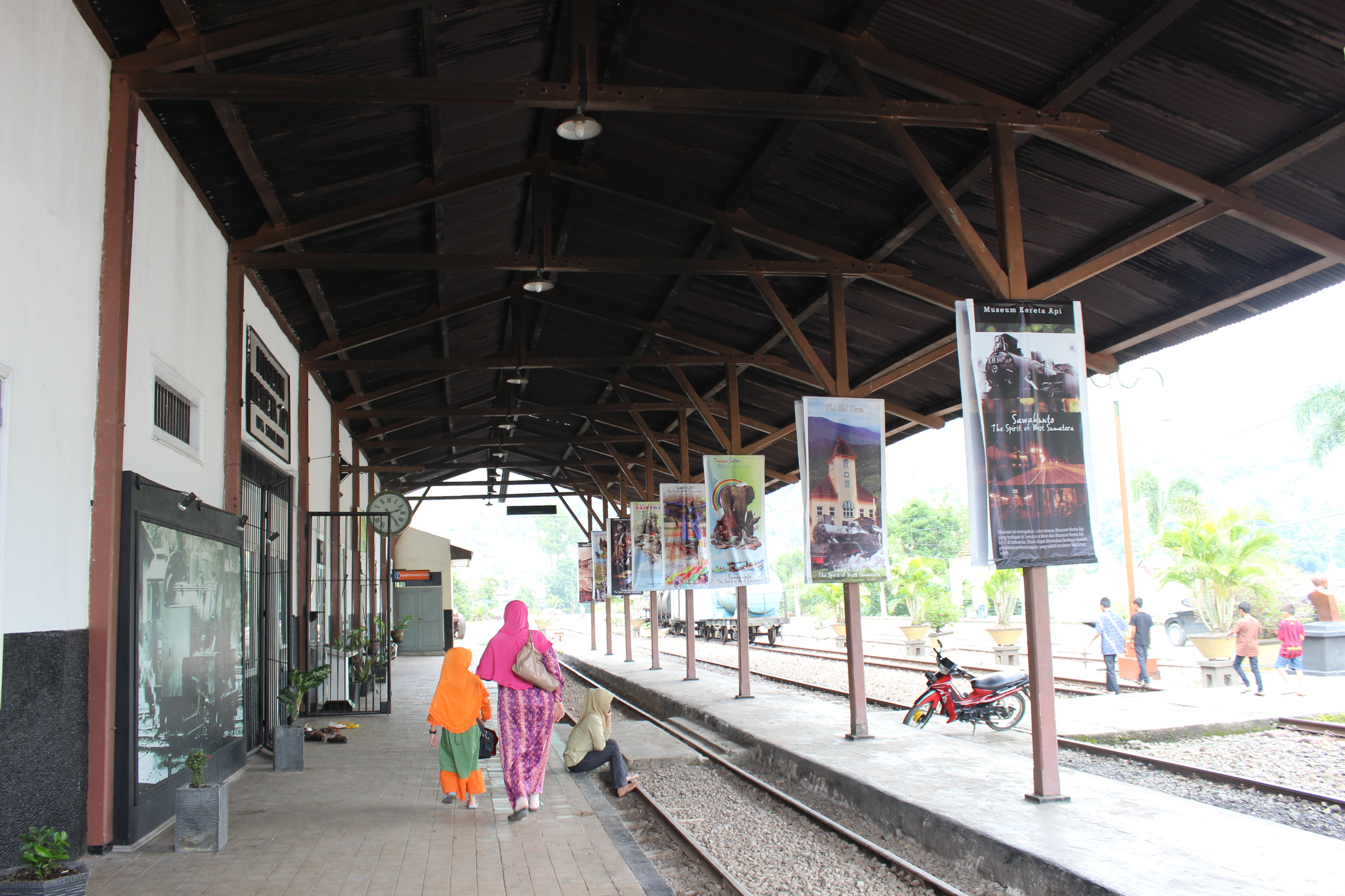 Railway station in Sawahlunto, West Sumatra. This station served occasional tourist train to Muaro Kalabanand also has a railway museum.